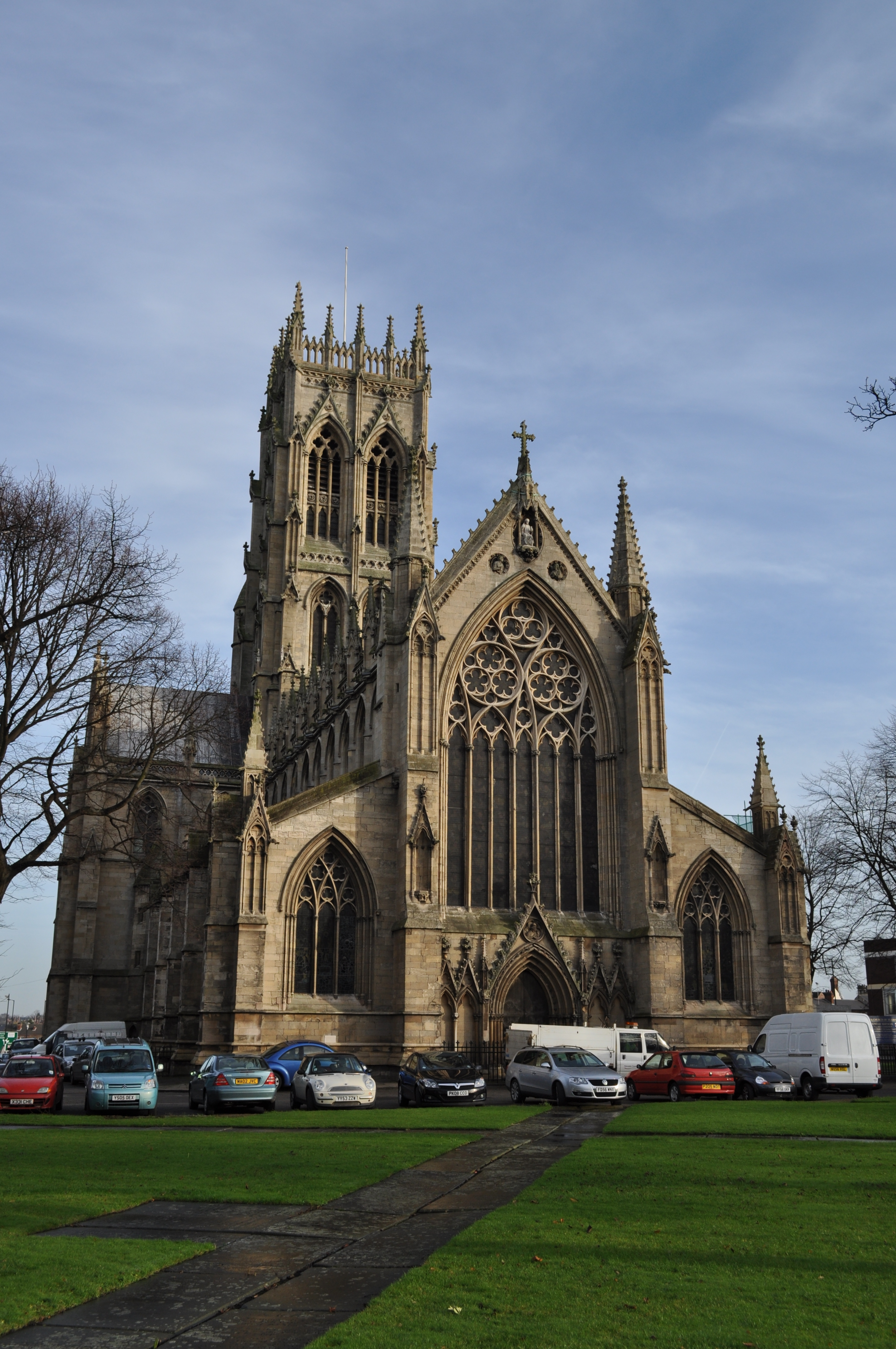 St George's Minster, Doncaster